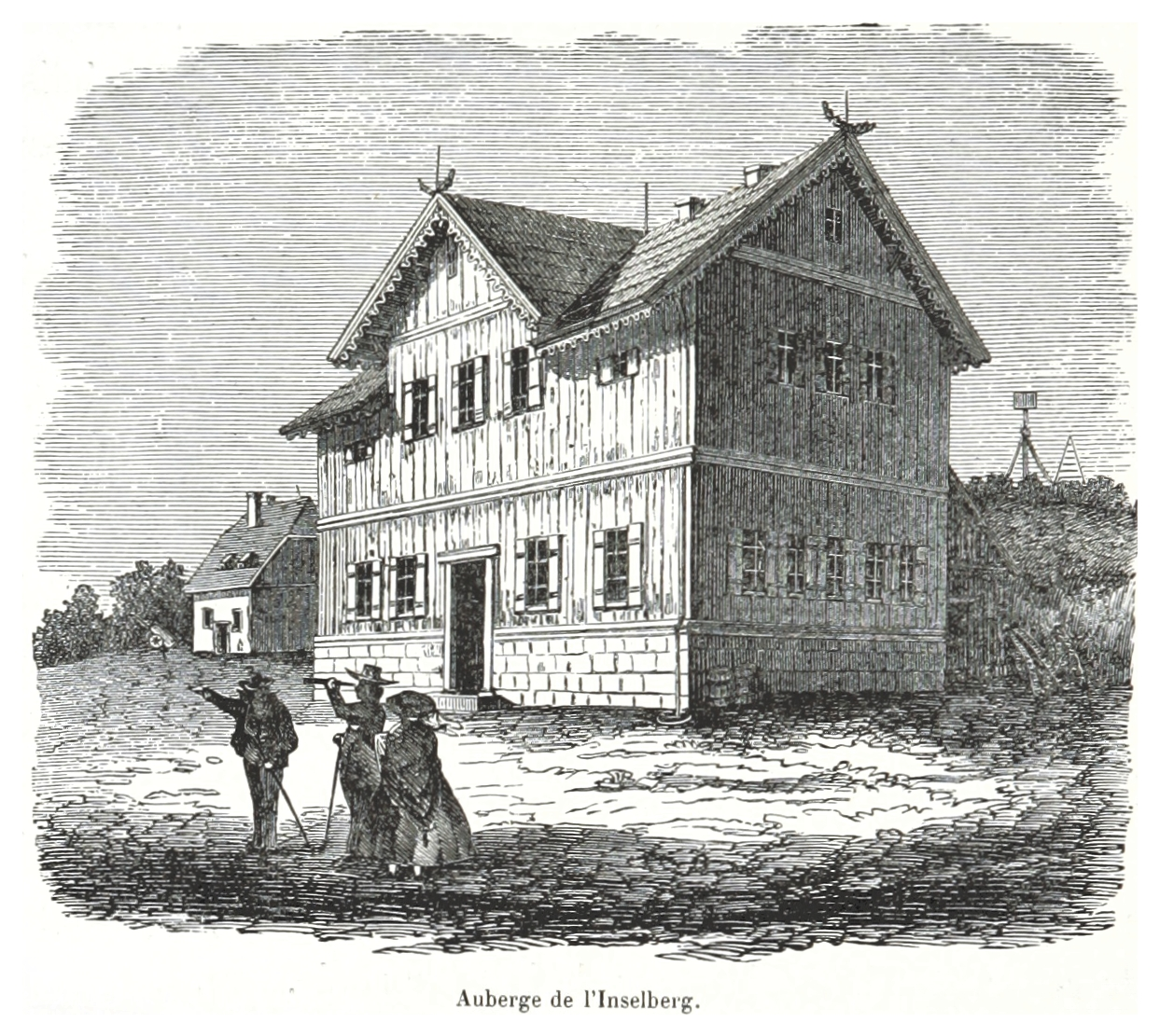 Image extracted from page of 344 Dans la Forêt de Thuringe. Voyage d'étude (1862) by Édouard Humbert. Original held and digitised by the British Library. Copied from Flickr. Note: The colours, contrast and appearance of these illustrations are unlikely to be true to life. They are derived from scanned images that have been enhanced for machine interpretation and have been altered from their originals.